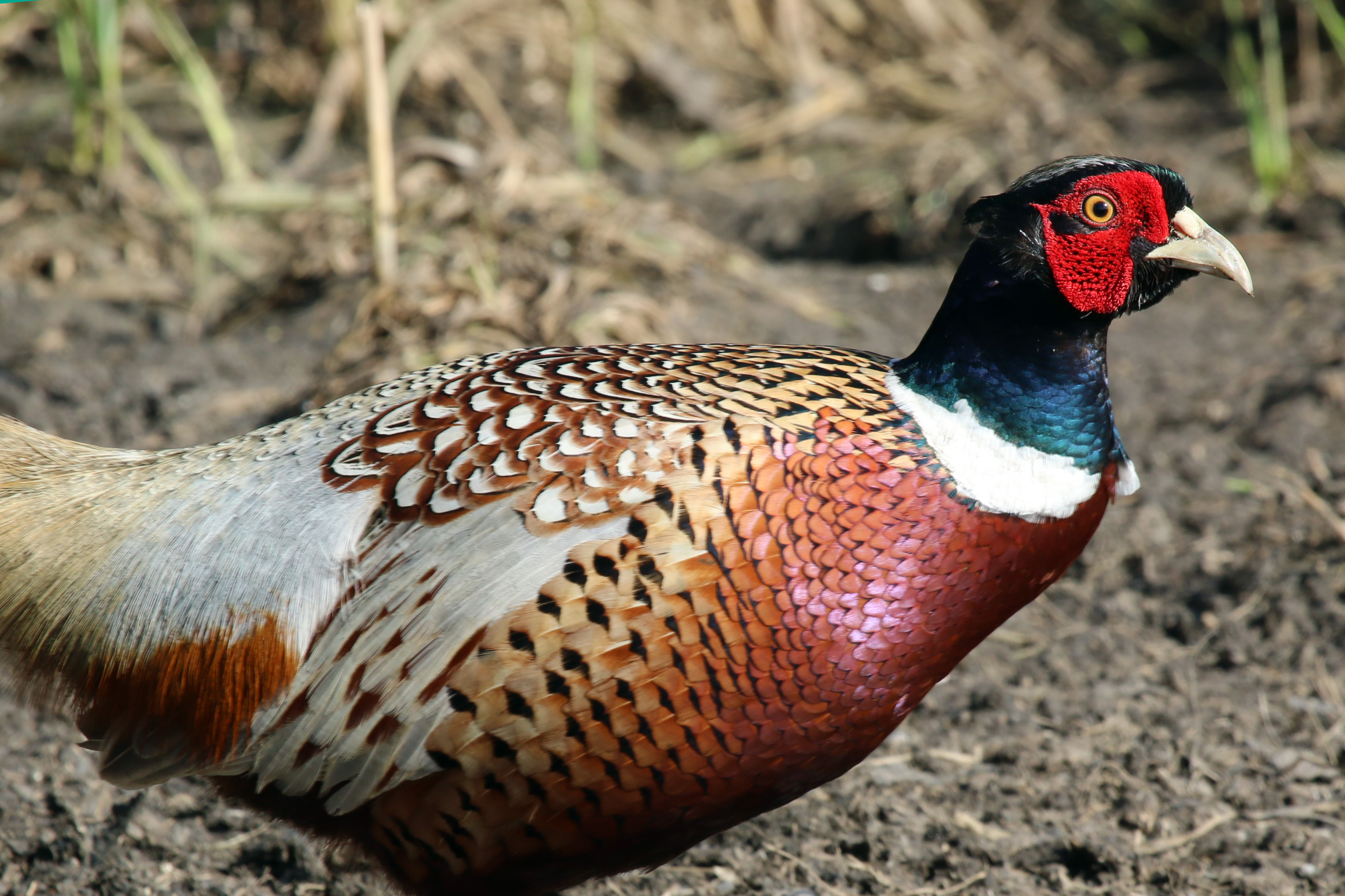 Pheasant cock (phasianus colchicus), at Otmoor RSPB Reserve, Oxfordshire